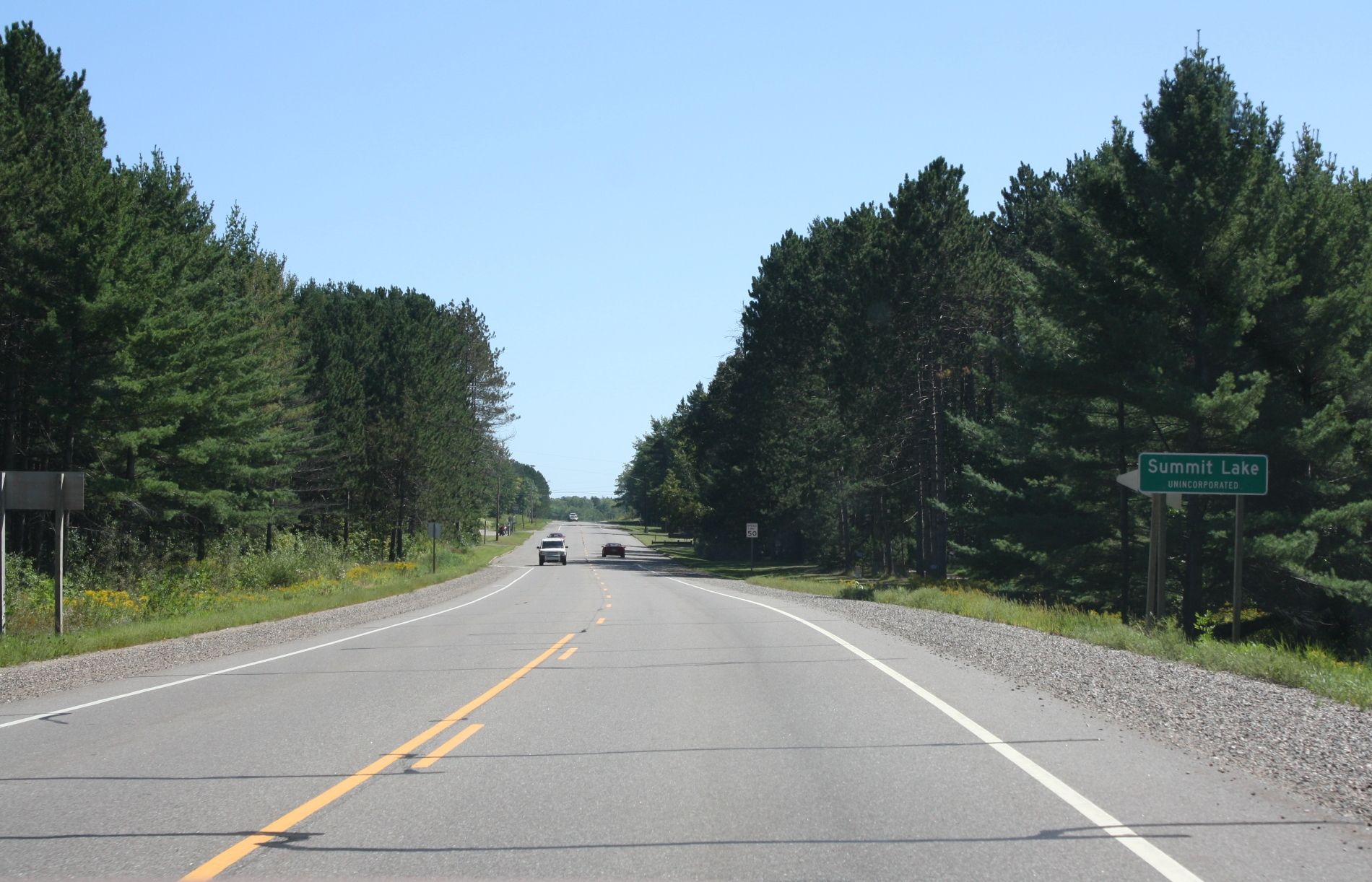 Looking south at the sign for Summit Lake, Wisconsin on U.S. Route 45.